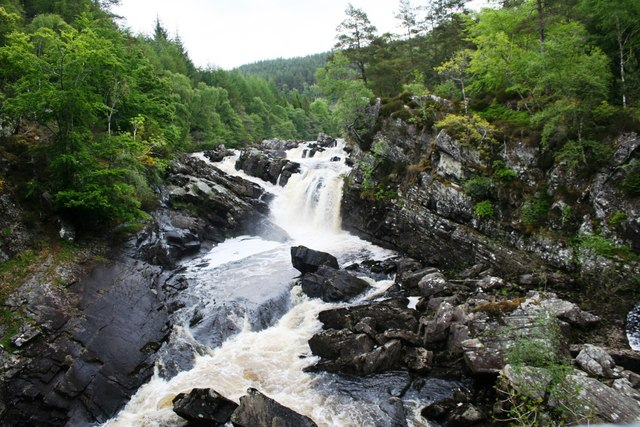 Rogie water Rogie Falls in full flow.